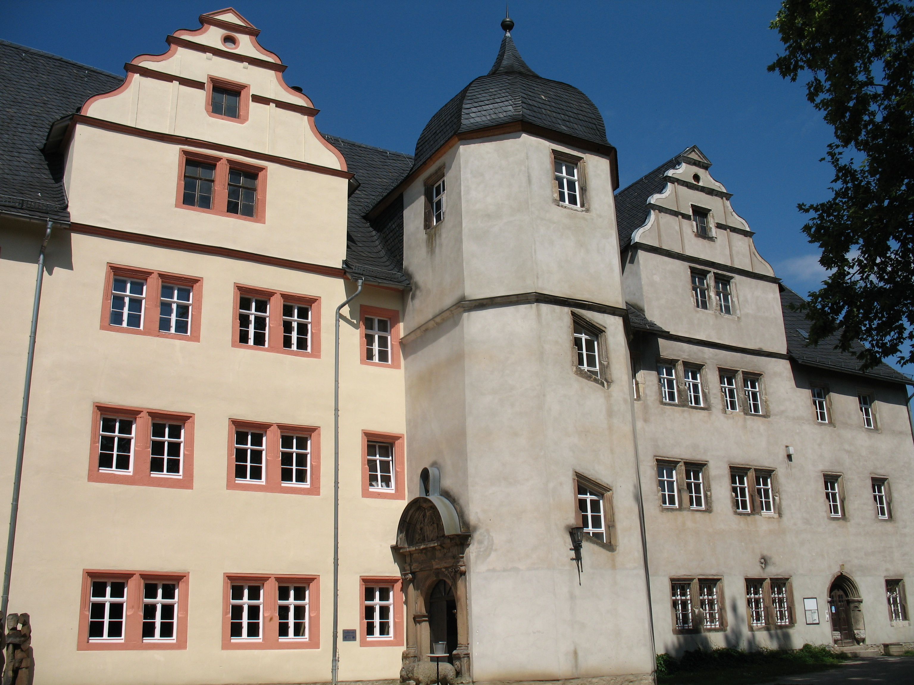 Castle in Großkromsdorf, Thuringia, Germany